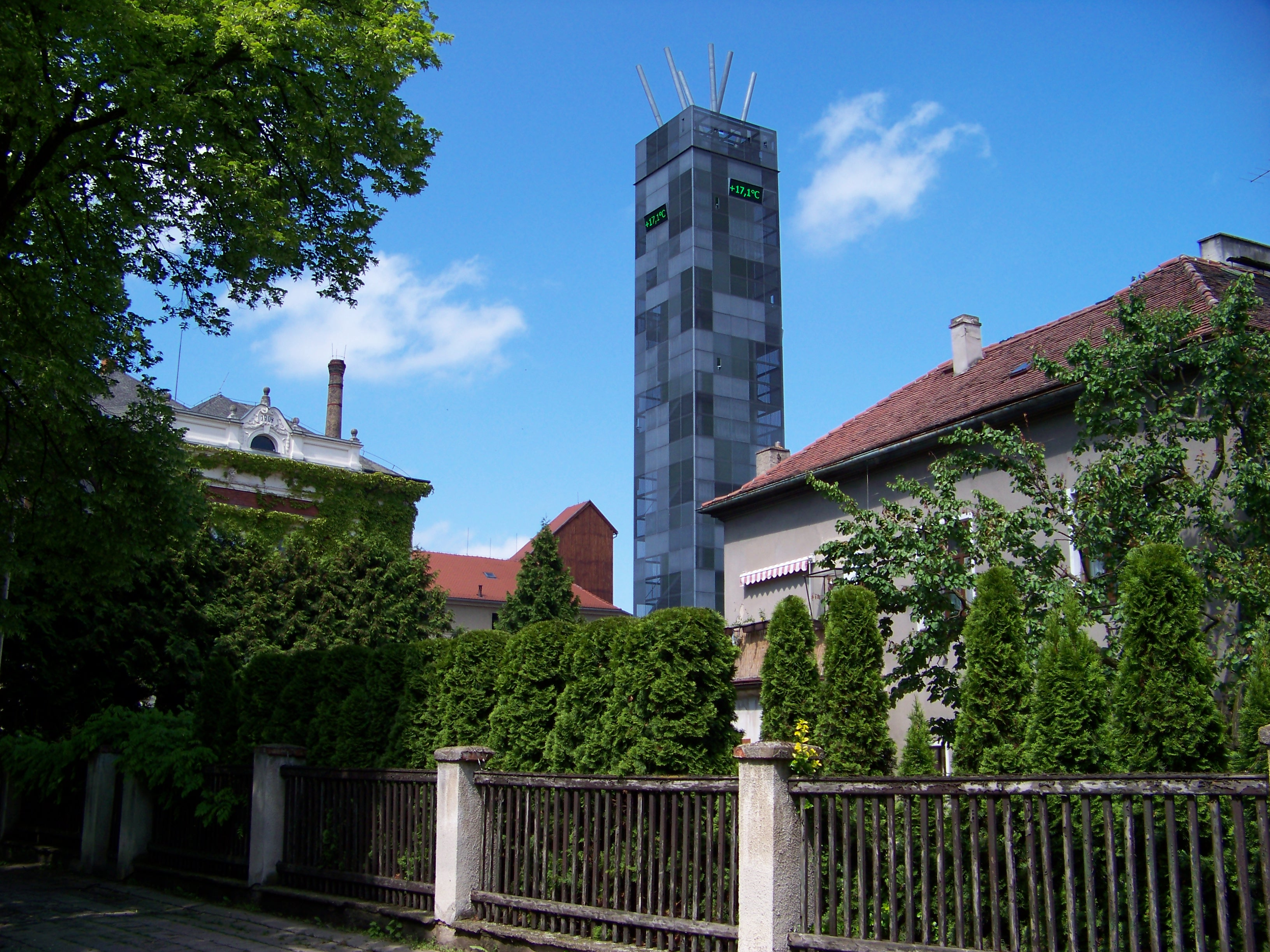 Žatec, Louny District, Ústí nad Labem Region, Czech Republic. Komenského alej, nám. Prokopa Malého 838, Chmelový maják tower.